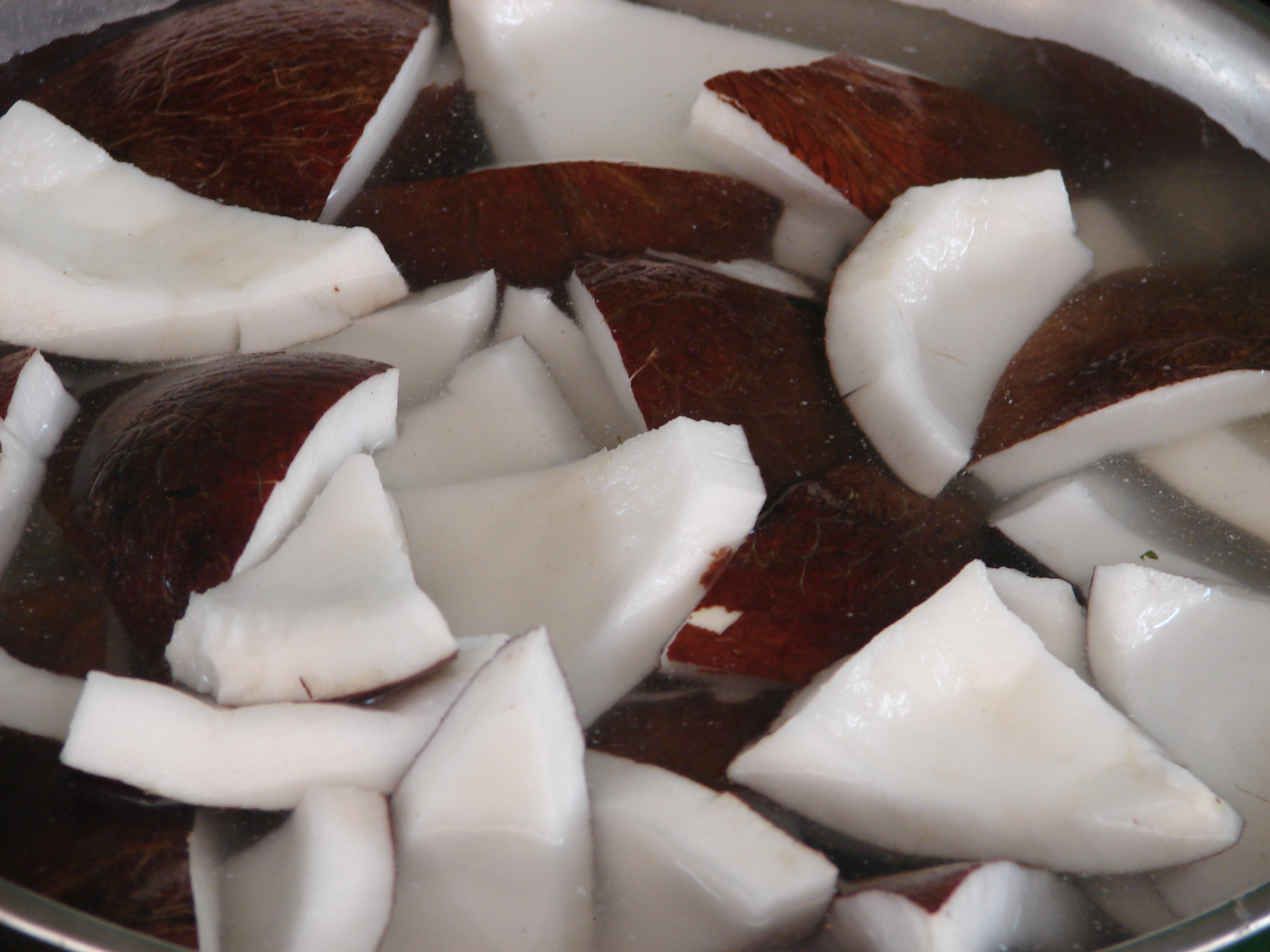 Coconuts in a veggie shop